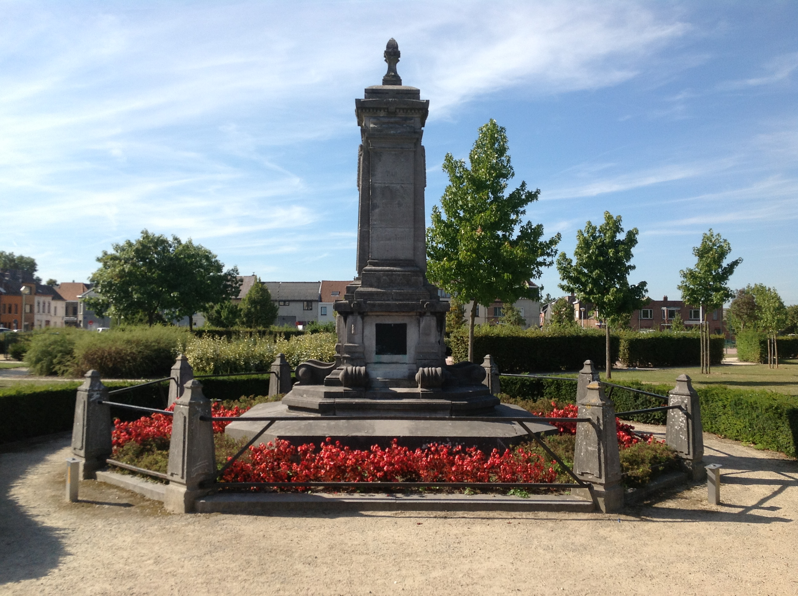 Bluestone memorial for William Tyndale, Mechelsesteenweg, 1800 Vilvoorde